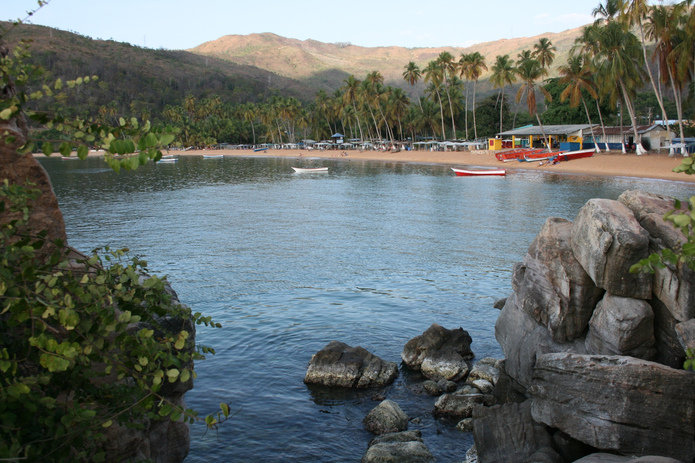 Playa Colorada, Sucre State, Venezuela.